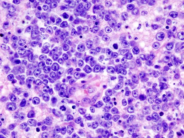 Histopathologic image of CNS B-cell lymphoma. Stereotactic biopsy. The same case as shown in a file "CNS_lymphoma_(1)_B-cell_type.jpg". H & E stain.